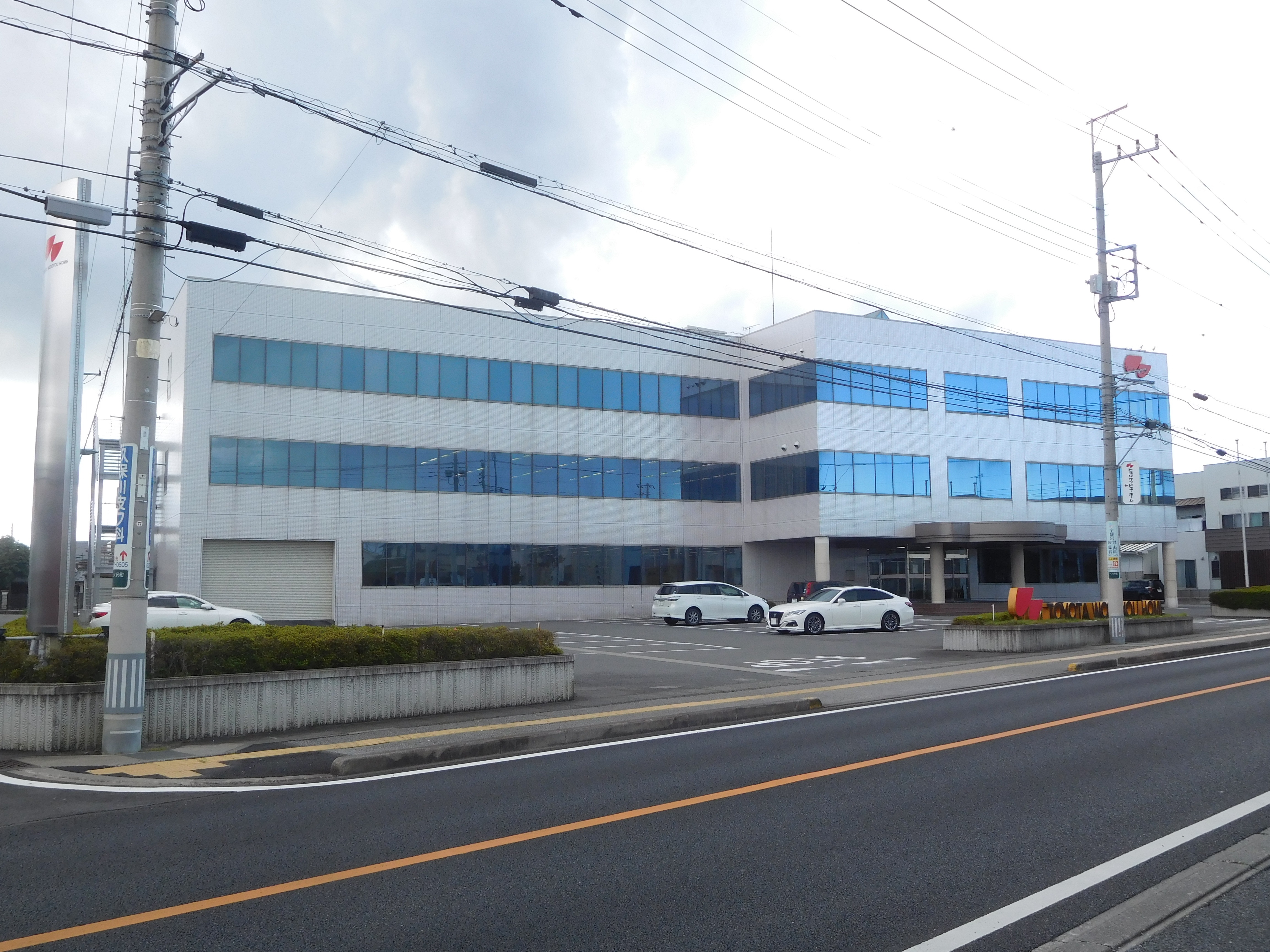 This is the headquarters of TOYOTA WOODYOU HOME CORPORATION in Utsunomiya, Tochigi, Japan.